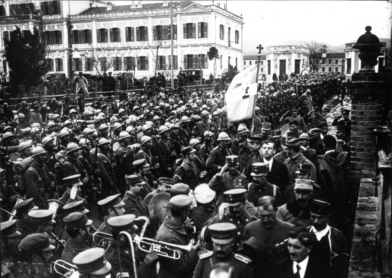 Greek troops depart Athens for the front in Anatolia, 1921Türkçe: Yunan birlikleri Anadolu'daki cepheye gitmek üzere Atina'dan ayrılıyor, 1921